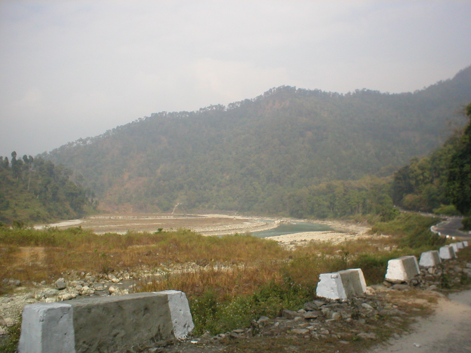 Photos from my honeymoon at Darjeeling/Gangtok.